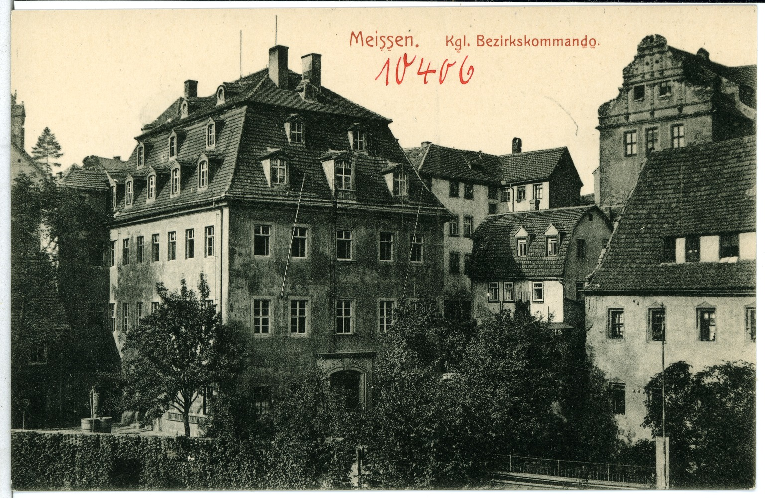 This postcard is from publisher Brück & Sohn in Meißen ( This postcard has a unique number 10406 and is available in a higher resolution at the publisher. This images was uploaded in a cooperation project between Wikipedians and the publisher.